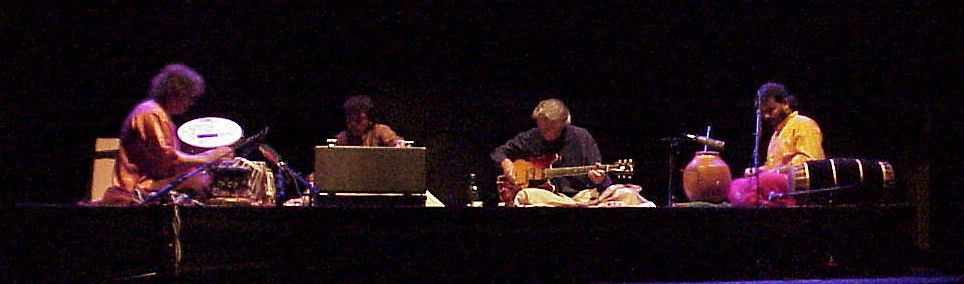 Remember Shakti in Munich/Germany (2001): Zakir Hussain, U.Shrinivas, John McLaughlin, V.Selvaganesh